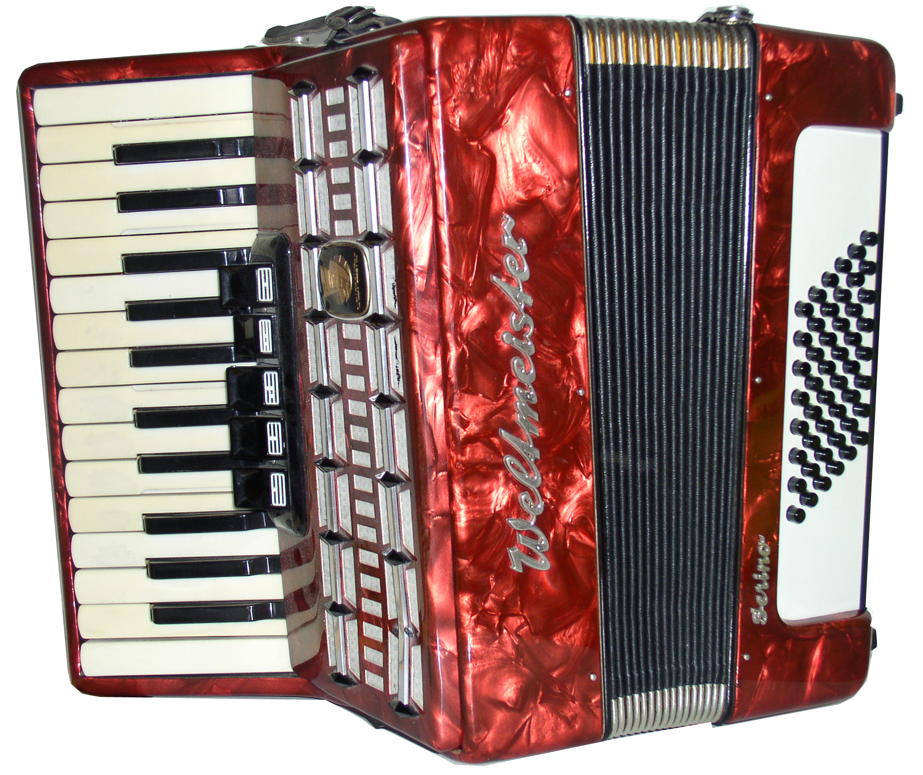 Piano accordion; Weltmeister, 48 bass, 3 reed-rows